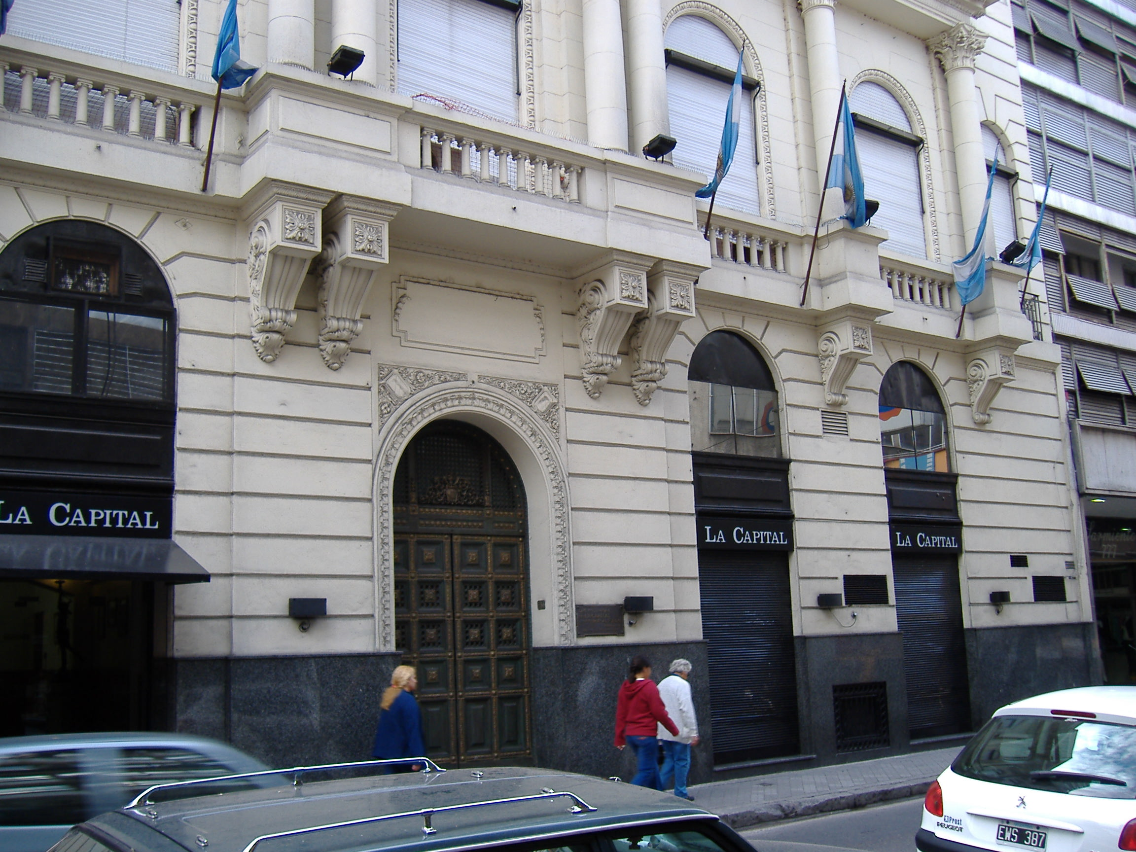 The building of the La Capital newspaper in Sarmiento St., Rosario, Argentina. This newspaper is the oldest Argentine newspaper still being published (since 1867). This picture was taken by Pablo D. Flores on 2 March 2006.